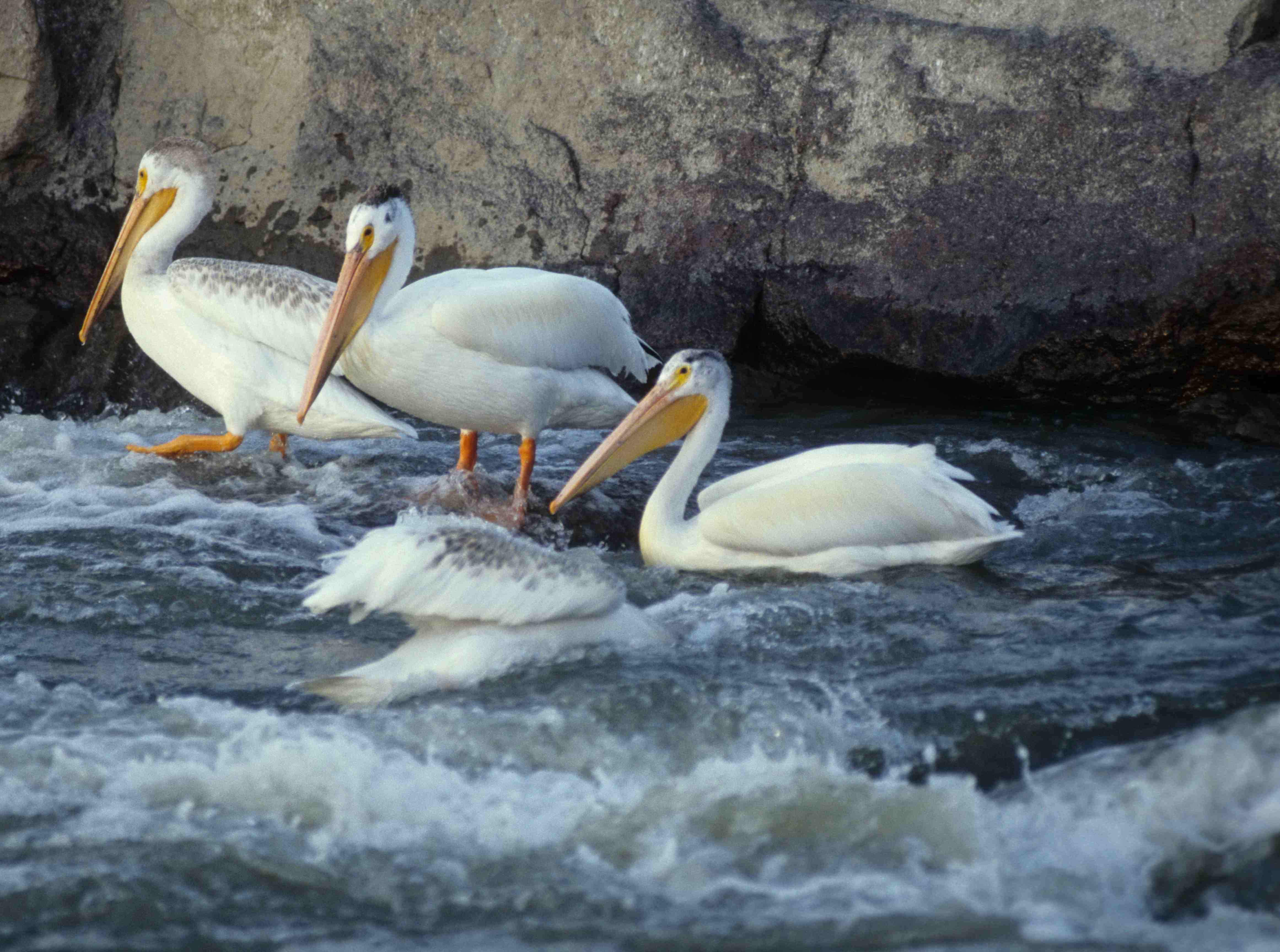 American White Pelicans (Pelecanus erythrorhynchos, Nashornpelikan) from Rapids of the Drowned (Slave River near Fort Smith, NT, Canada)